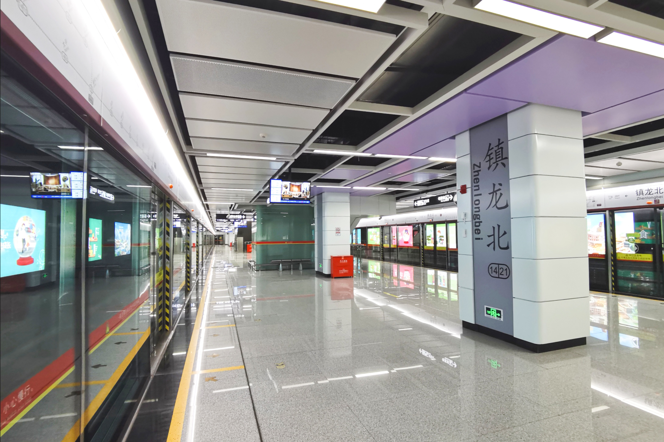 广州地铁镇龙北站